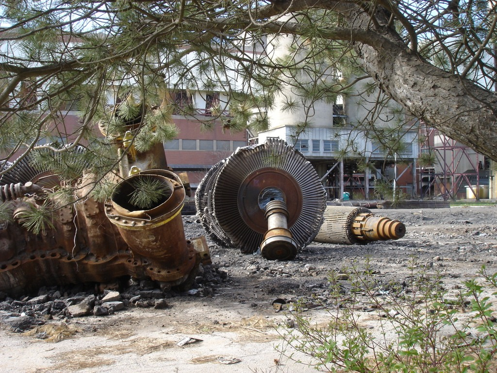 Turbomachinery removed from the Hearn power plant in Toronto, placed in front of the plant, rusting away.